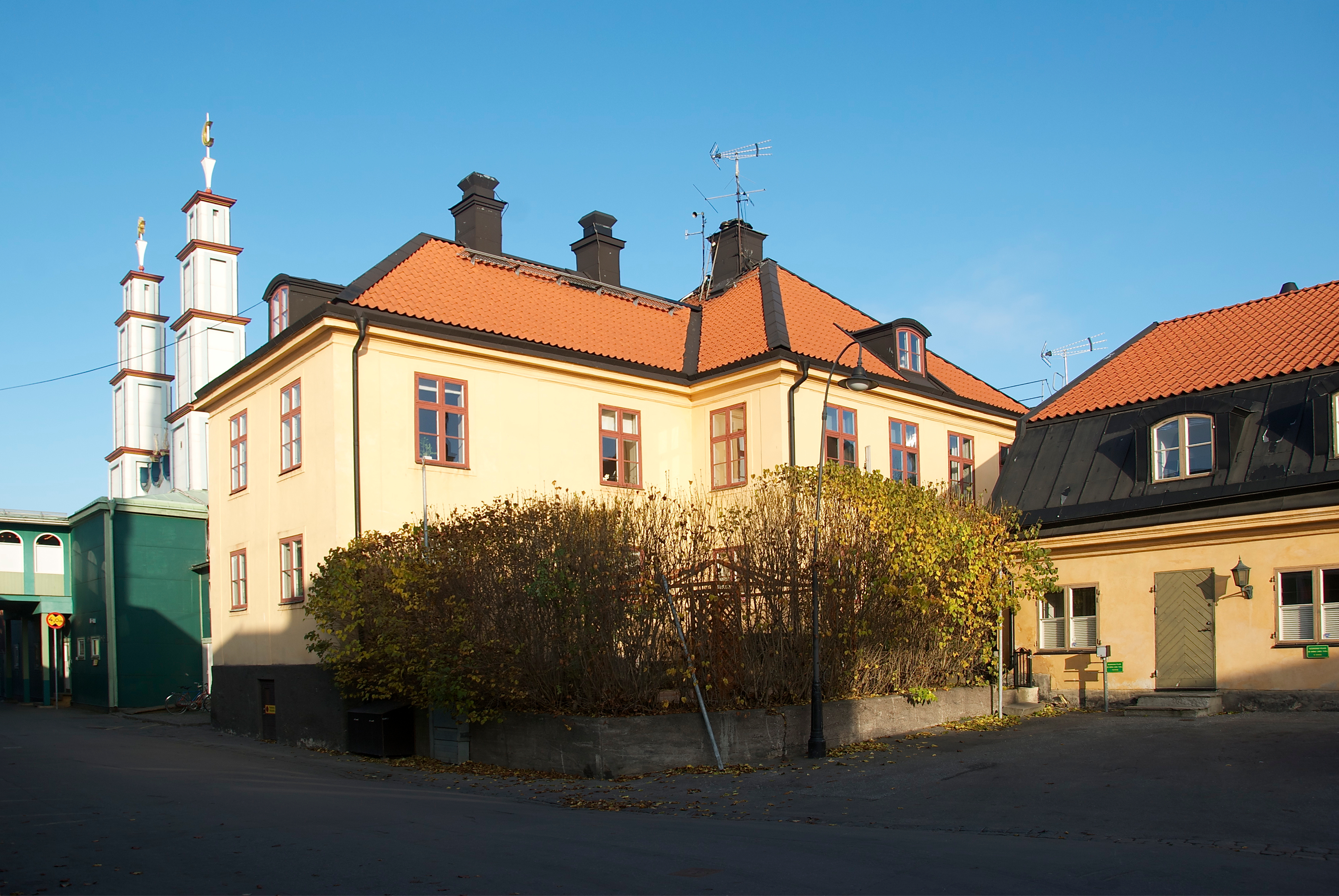 Apotekshuset, Djurgårdsstaden (Stockholm, Sweden).